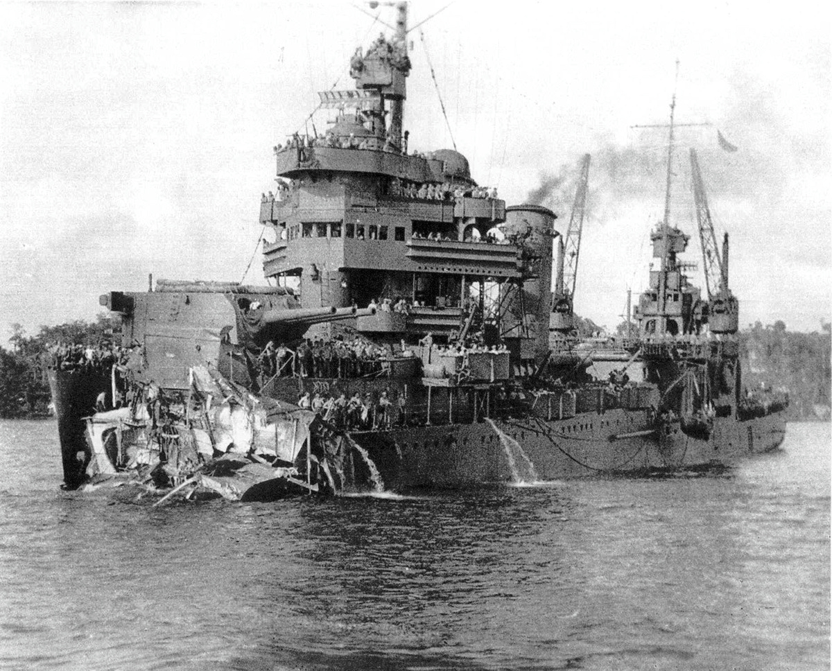 The damaged U.S. Navy heavy cruiser USS New Orleans (CA-32) entering Tulagi harbour about eight hours after the Battle of Tassafaronga, 1 December 1942. Everything ahead of turret No. 2 is missing after being hit by a single torpedo which exploded her forward magazines.